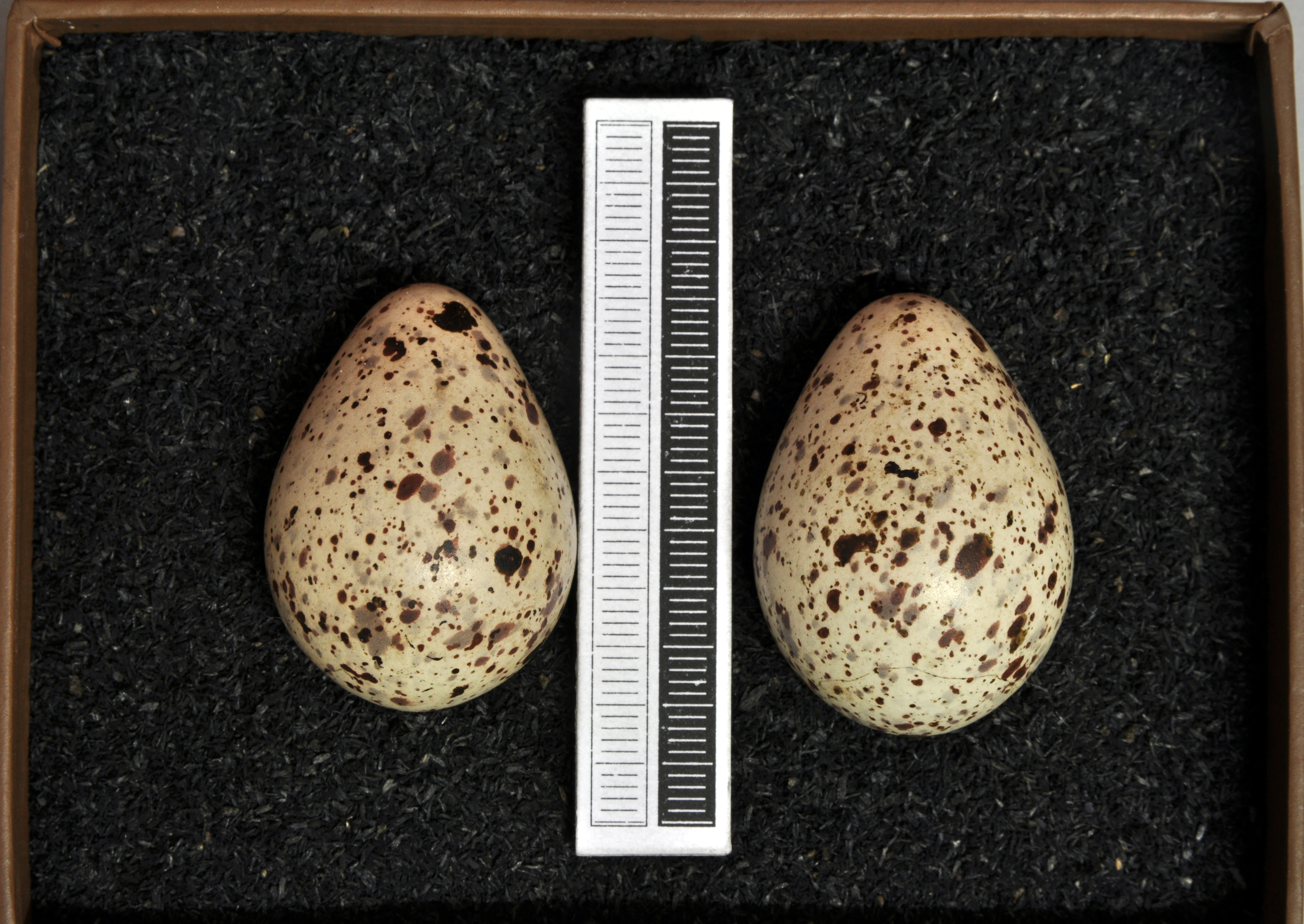 Green sandpiper Tringa ochropus , egg, Coll. Museum Wiesbaden